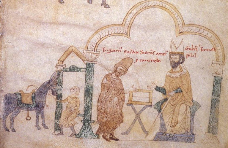 Tancred of Sicily